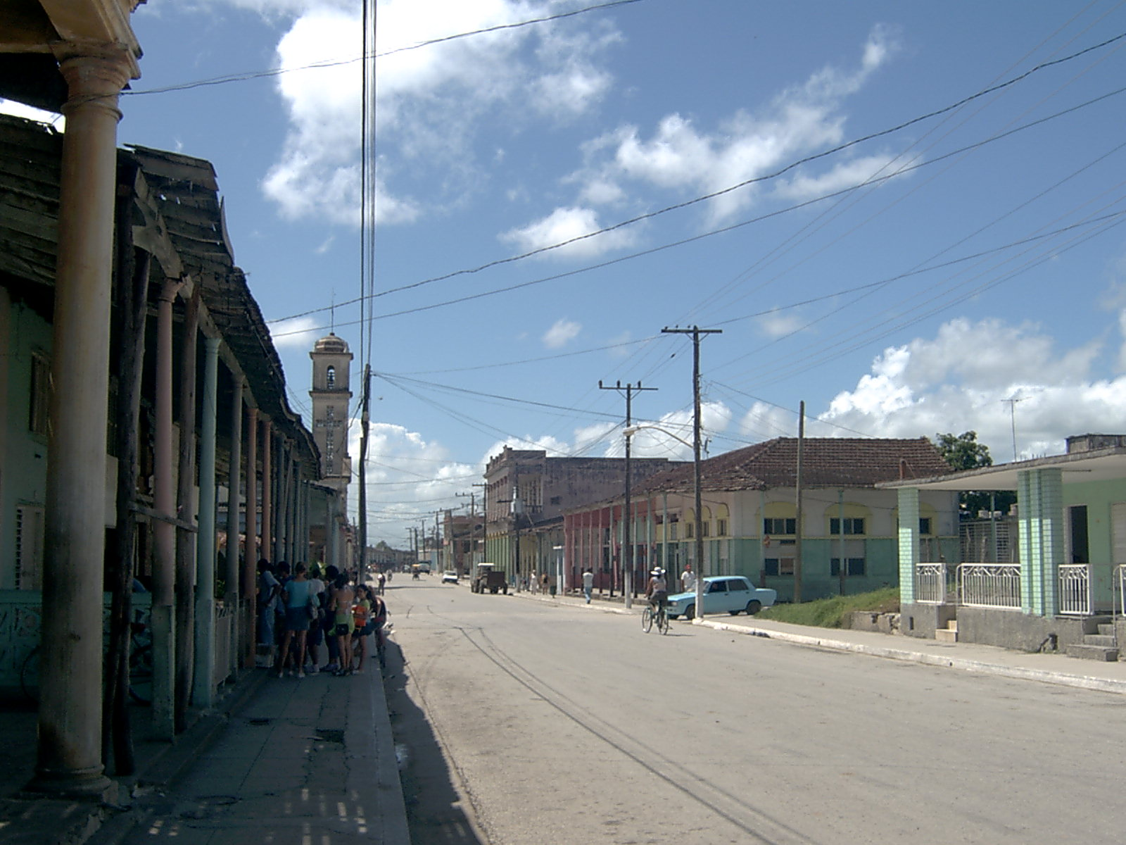 View of Cabaiguán, a town in the centre of Cuba